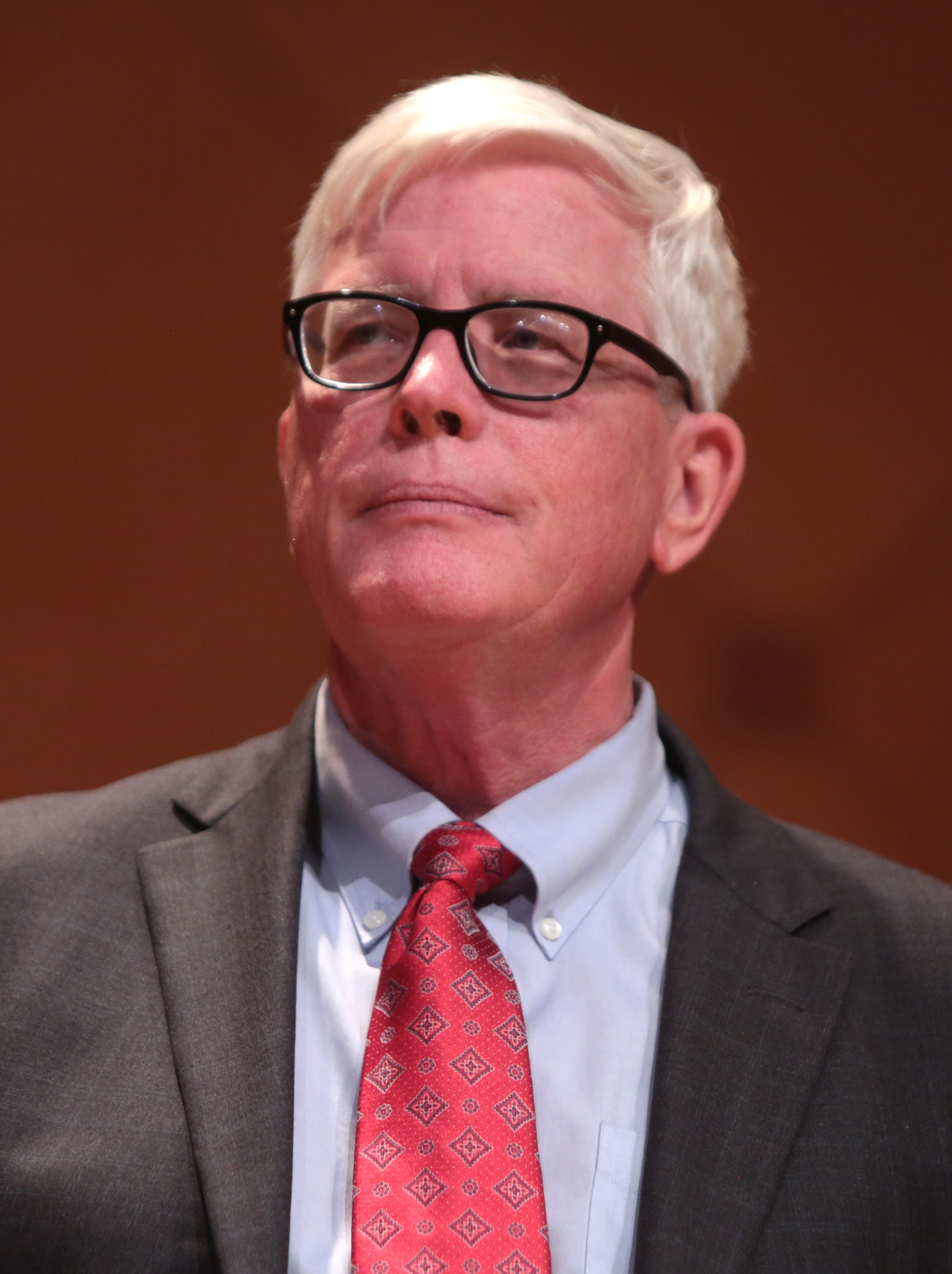 Hugh Hewitt speaking at a lecture hosted by the Center for Political Thought & Leadership at the Katzin Music Hall in Tempe, Arizona.